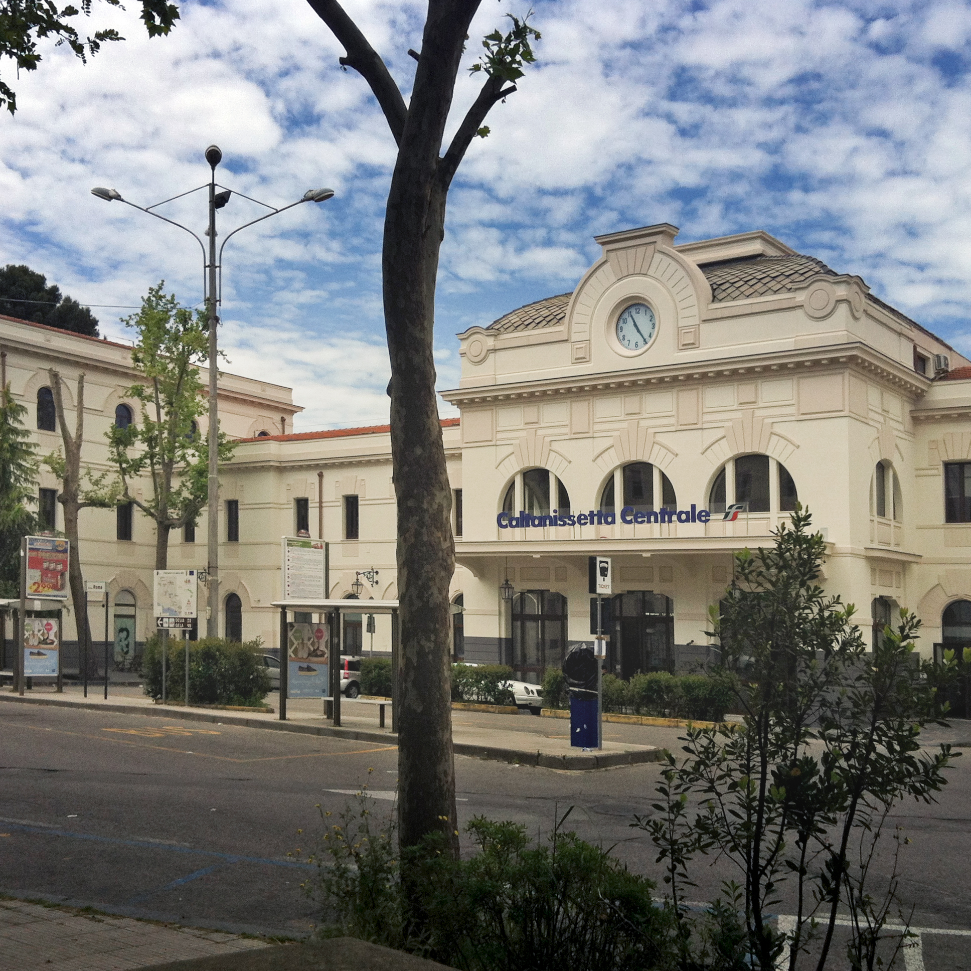 Caltanissetta - Central railway station: view from via Roma